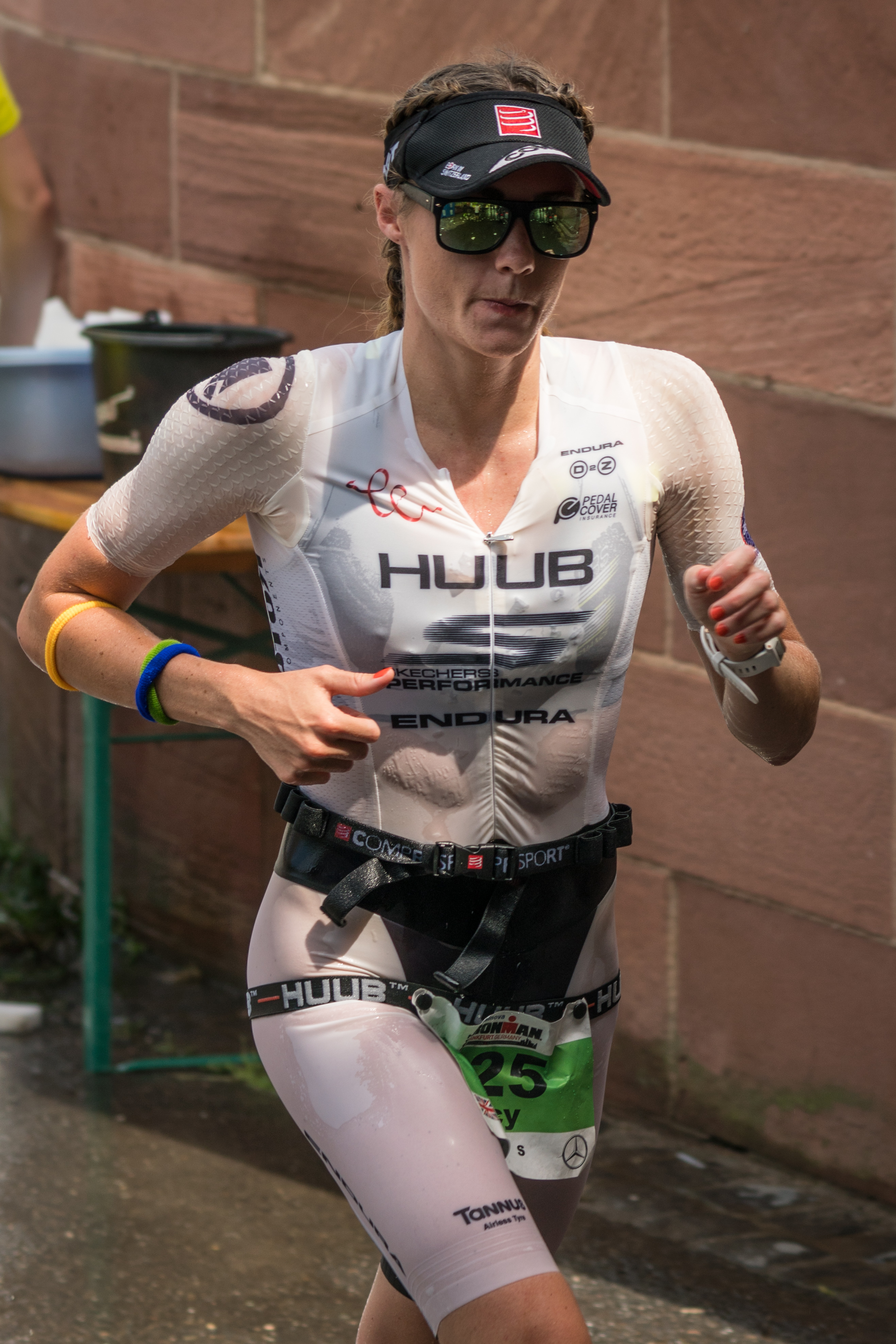 Second female Lucy Charles at the 2017 Ironman European Championship in Frankfurt am Main (Germany).